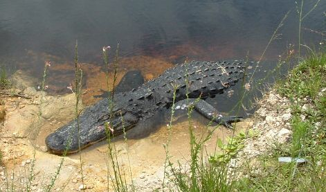 American Alligator (Alligator mississippiensis)